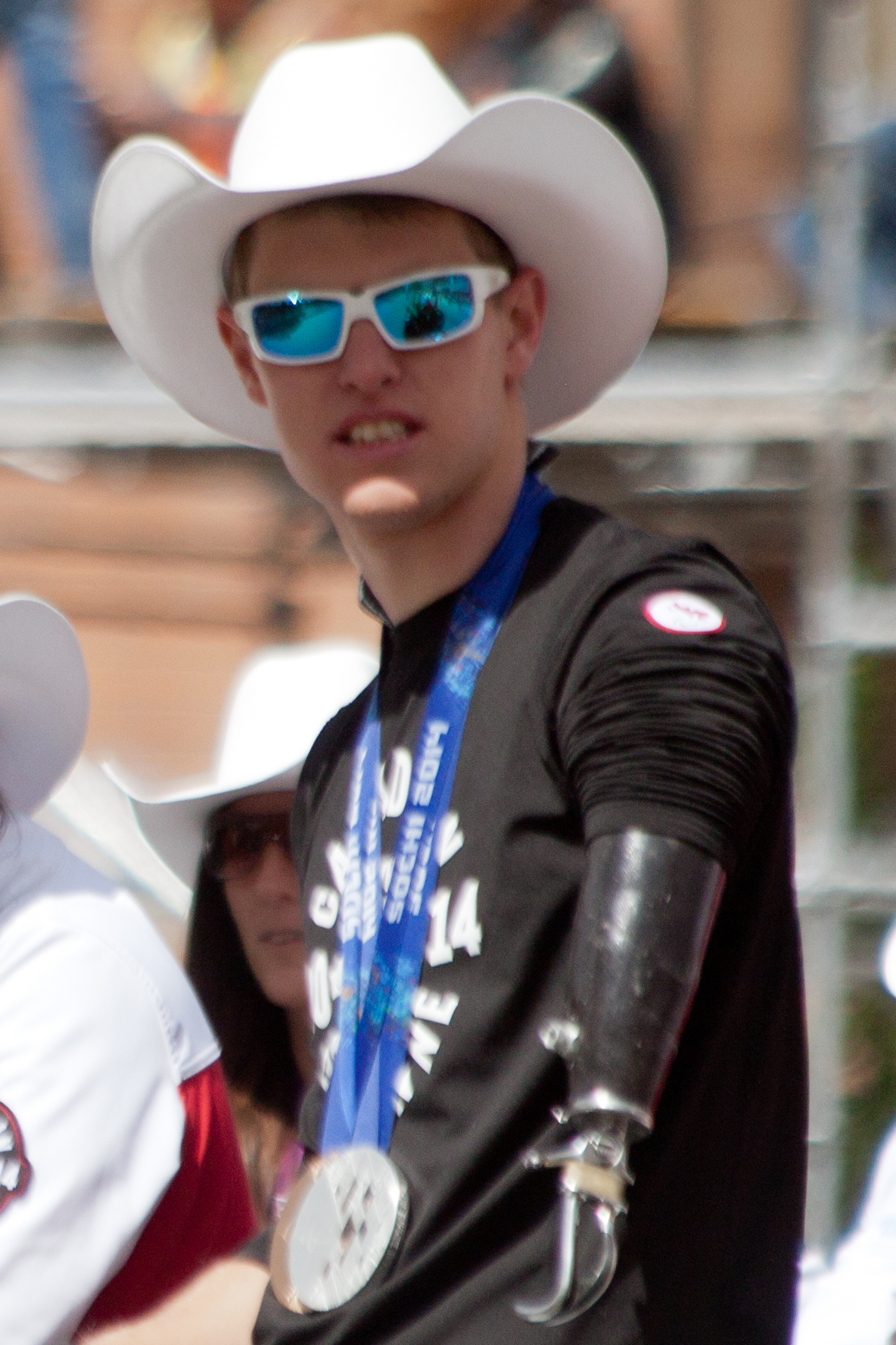 This is Canadian biathlon and Para-Nordic Paralympic skier Mark Arendz, appearing at the Parade of Champions in Calgary, Alberta on June 6, 2014.